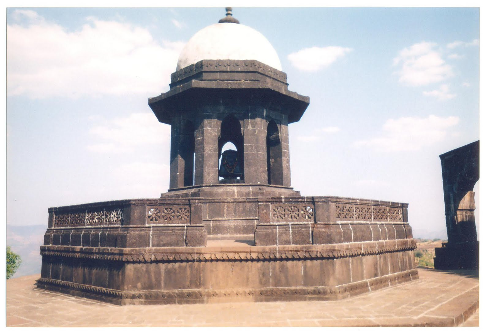 Samadhi (Tomb) of Chhatrapti Shivaji Mamharaj